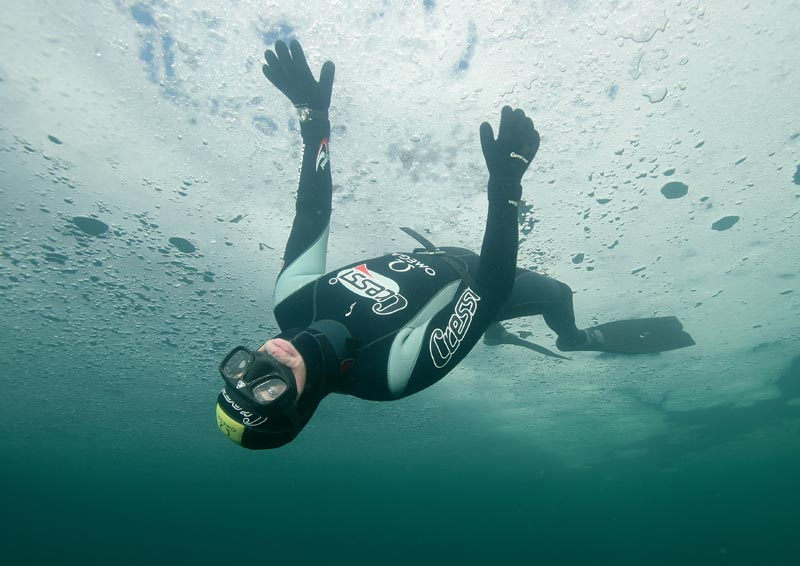 Iceman Christian Redl freediving under ice